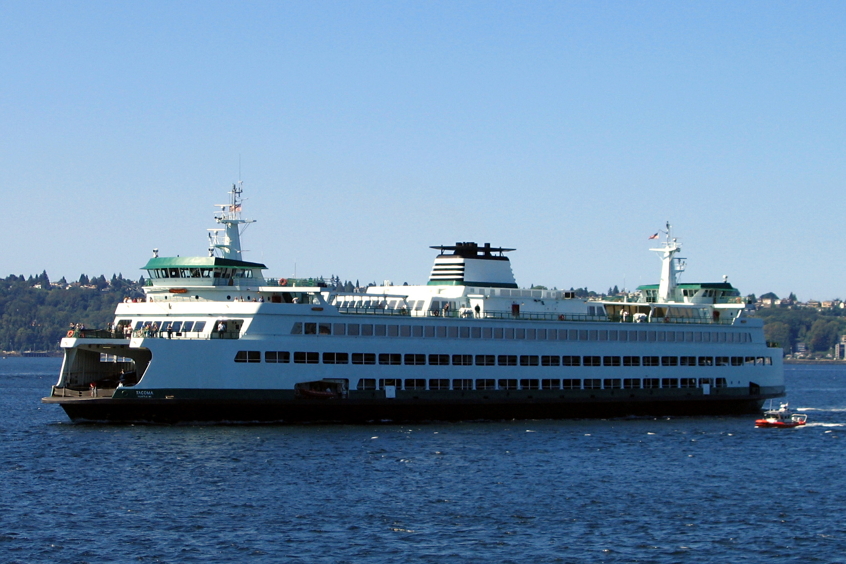 M/V Tacoma arriving at Pier 52 Seattle after sailing from Bainbridge Island. Photo taken from a harbor tour boat.